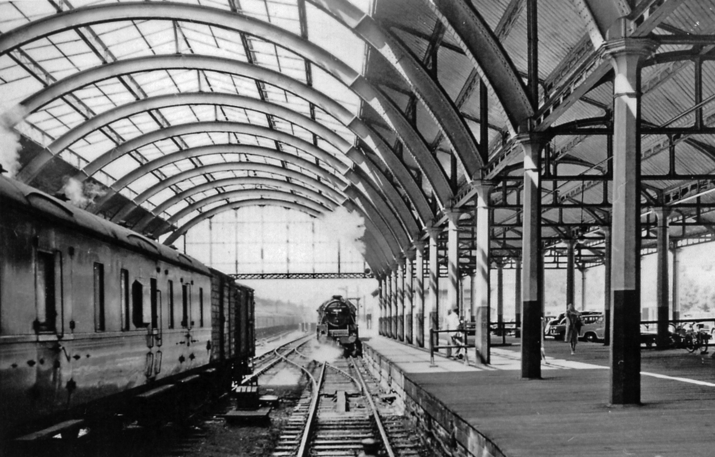 Bath (Green Park) Station interior. Near to Bath, Bath And North East Somerset, Great Britain. View westward, outward from buffer-stops on Platforms 1 and 2, with an express from Birmingham to Bournemouth West arriving (headed by an ubiquitous Stanier Class 5 4-6-0); this train will reverse to continue to Bournemouth over the S&D Joint line. See ST7464 : Bath (Green Park) Station for more.